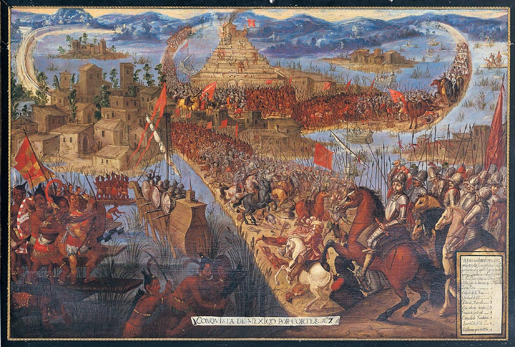 from the Conquest of México series.Representing the 1521 Fall of Tenochtitlan, in the Spanish conquest of the Aztec Empire.